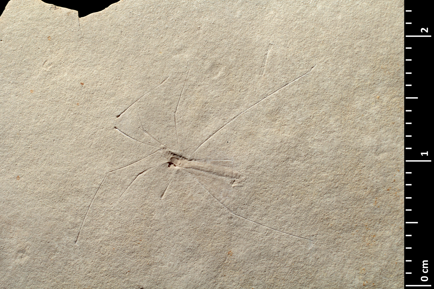 The Neides oligocenicus holotype, part side with direct lighting. Chattien, Aix-en-Provence, Provence-Alpes-Côte d'Azur, France Muséum national d'Histoire naturelle specimen MNHN.F.R10372